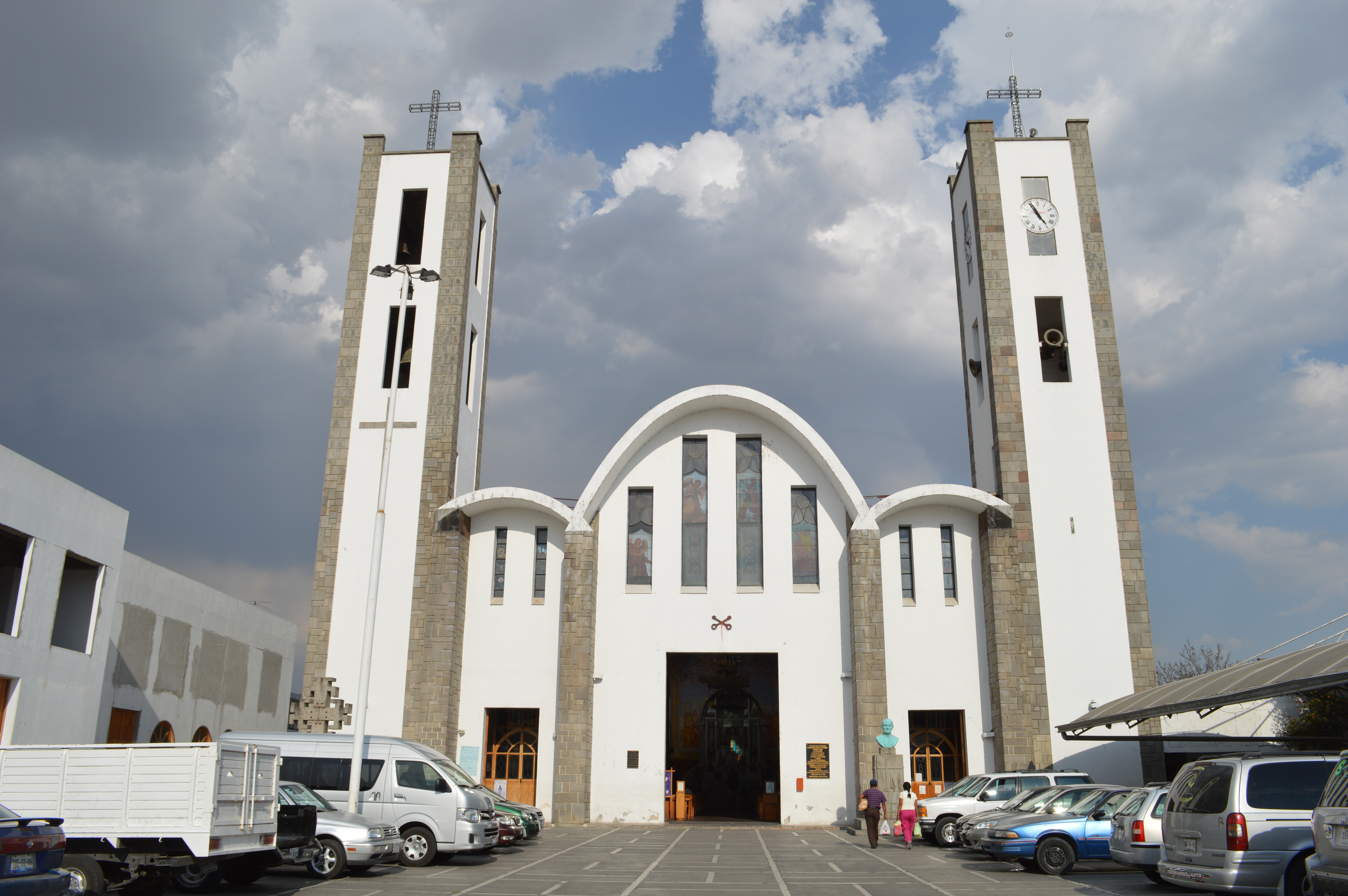 Basilica de la Caridad in Huamantla, Tlaxcala, Mexico